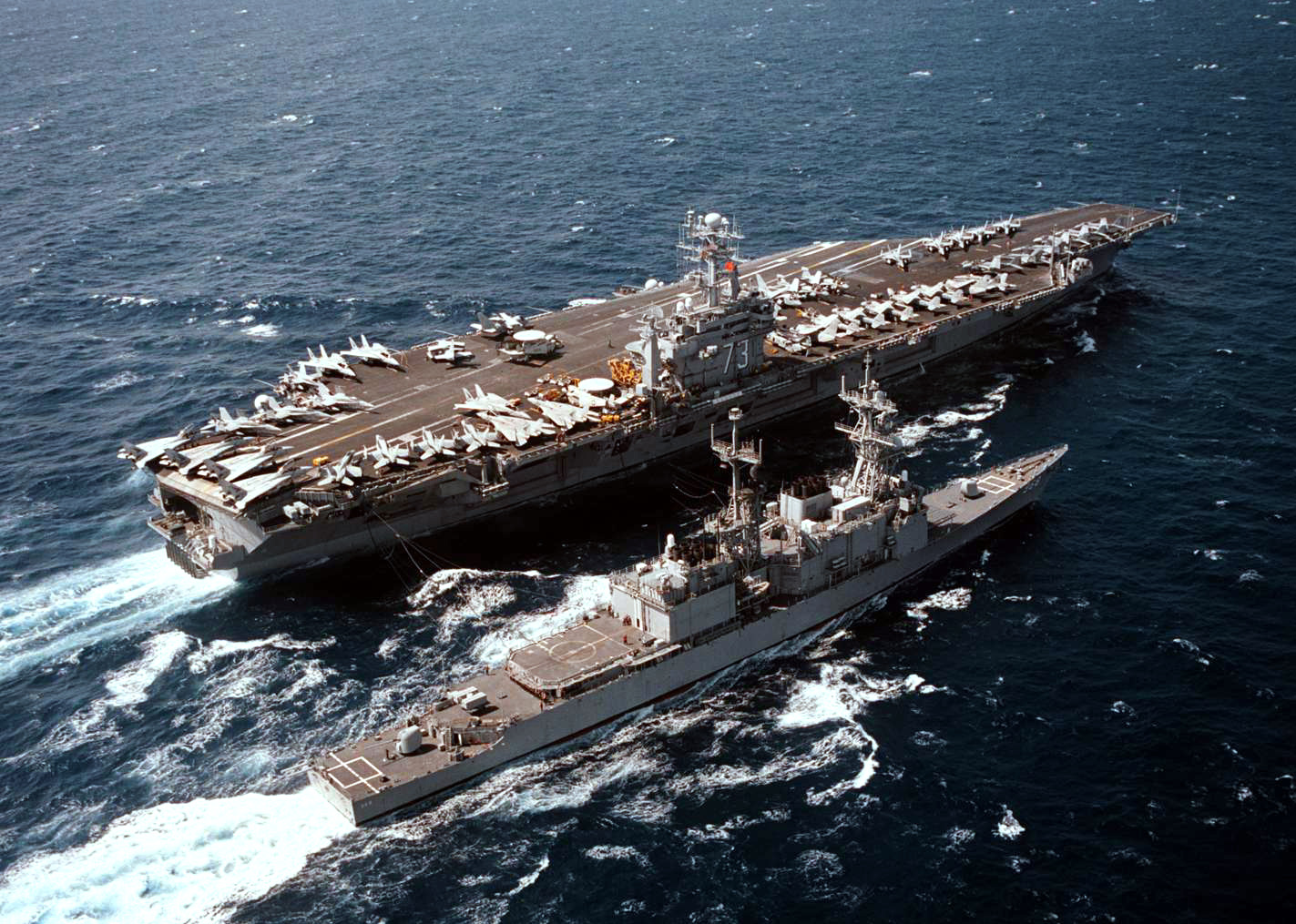 The U.S.Navy’s nuclear powered aircraft carrier USS George Washington (CVN 73) and guided missile destroyer USS Arthur W. Radford (DDG 968) conduct replenishment at sea operations in the western Mediterranean Sea, July 11, 1996. Both vessels are nearing the completion of a scheduled six-month deployment. George Washington’s battle group has sustained operations in support of the NATO-led peace keeping efforts in Bosnia under Operation Decisive Endeavor in the Adriatic Sea, and UN sponsored sanctions against Iraq, under Operation Southern Watch in the Arabian Gulf.